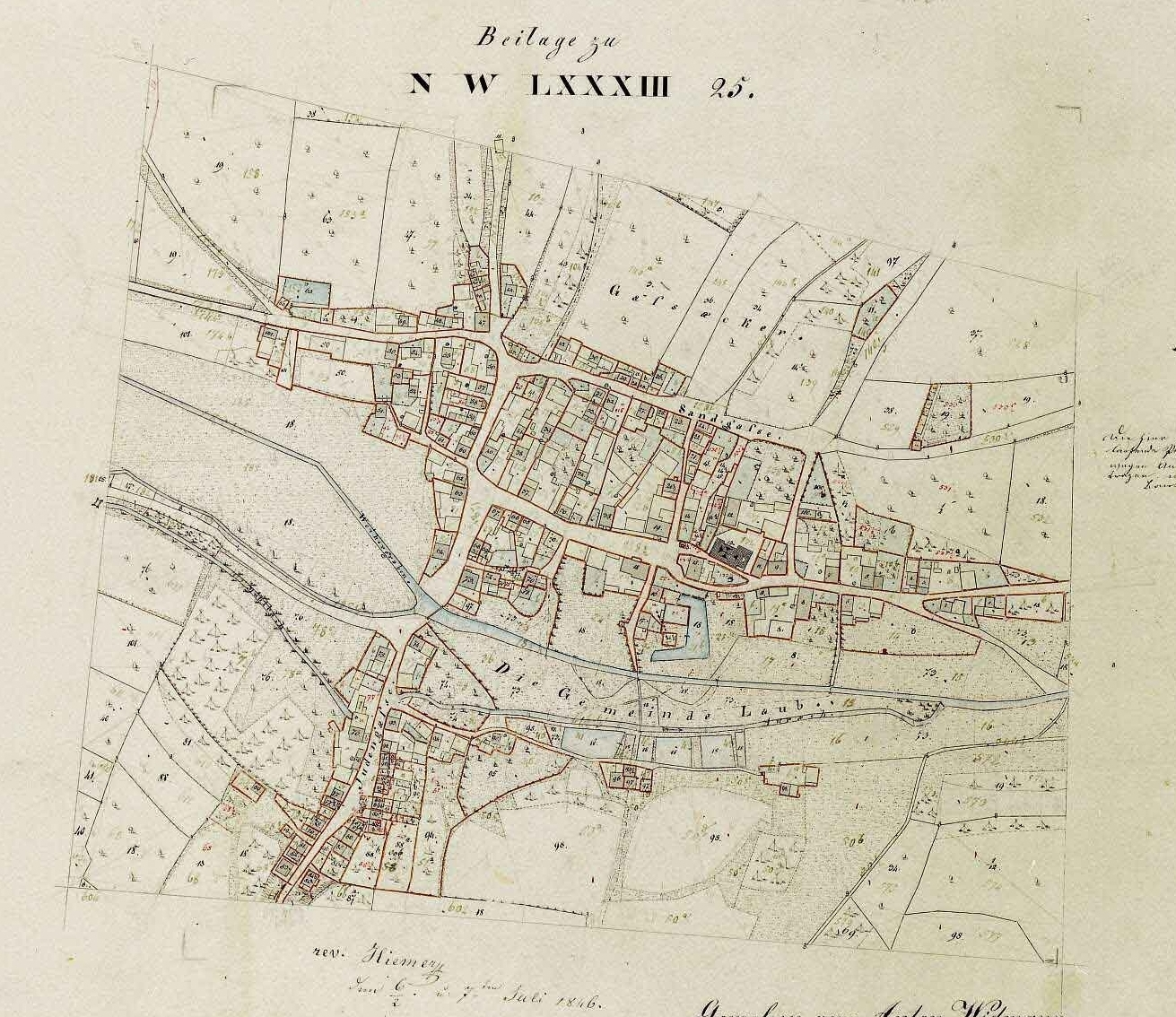 Walsdorf